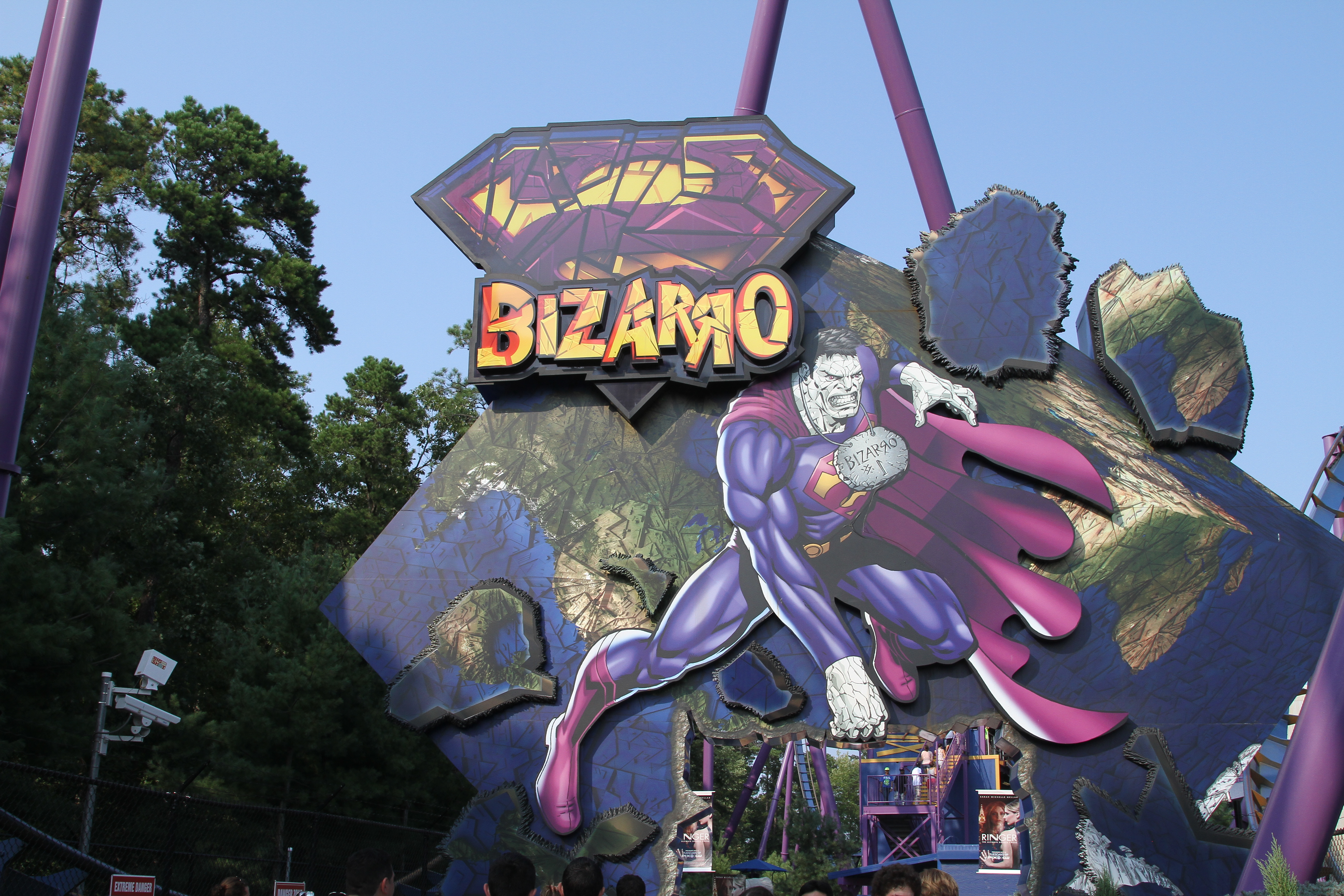 Six Flags Great Adventure Jackson, NJ September 3, 2011